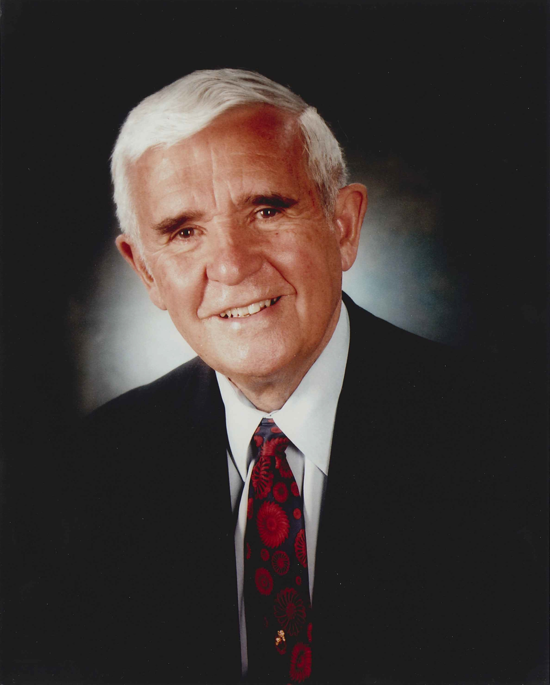 Paul Laxalt, former Governor and U.S. Senator from Nevada